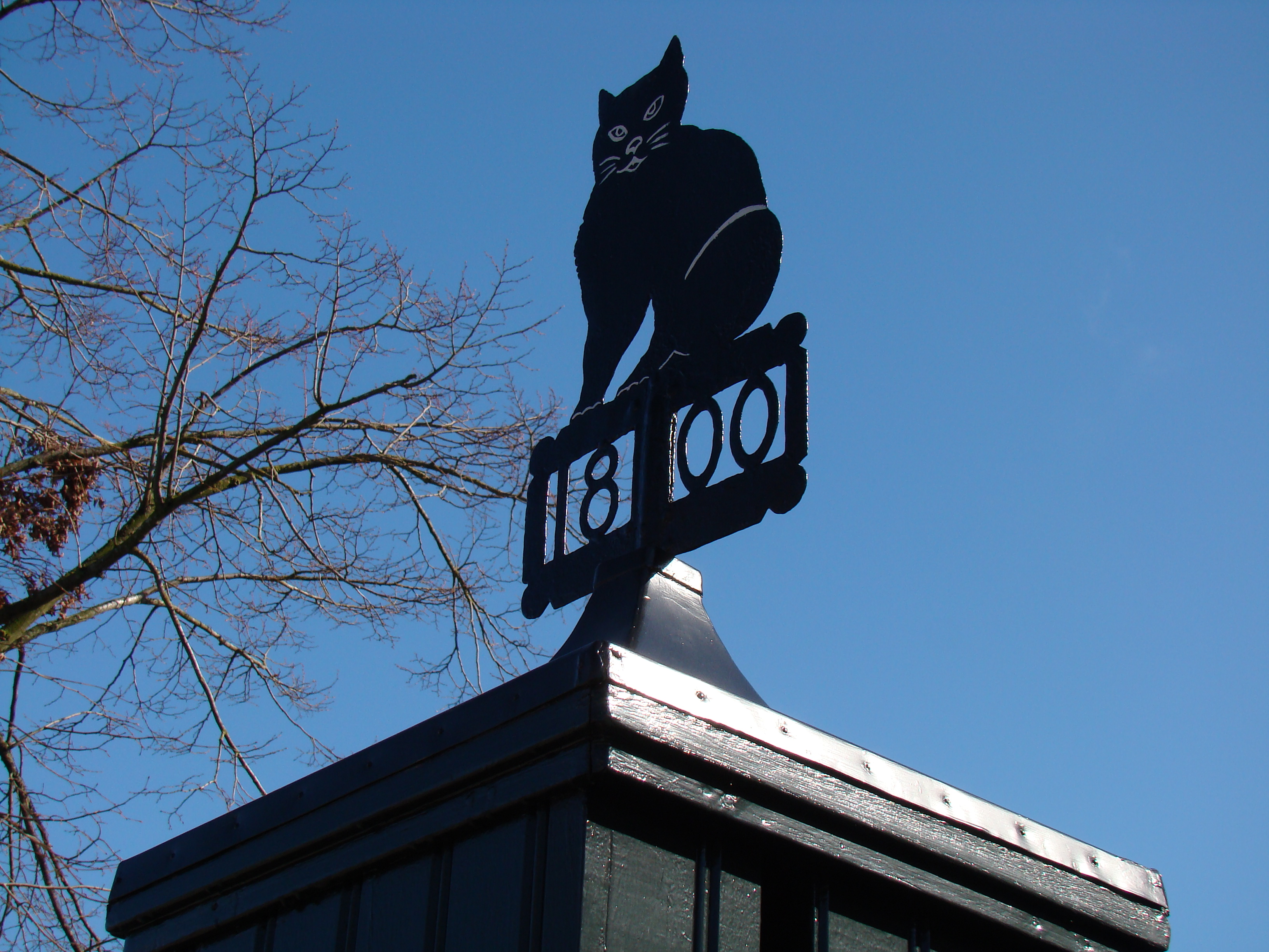 Impression of Aalten, Netherlands